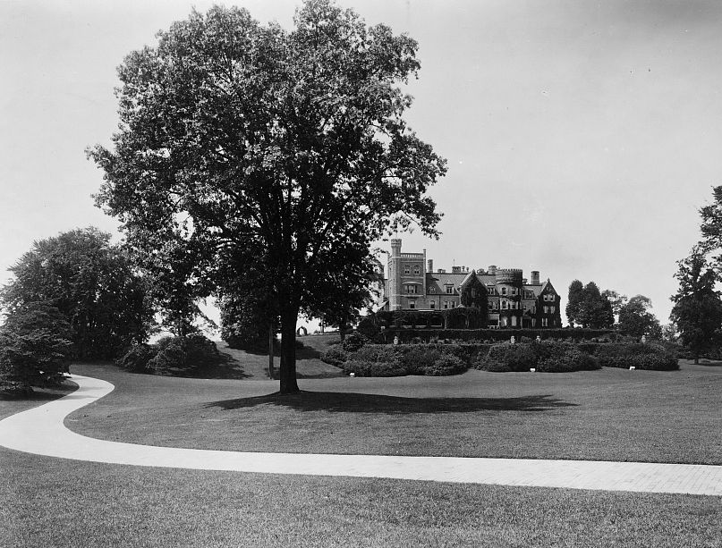 Crop of File:Rockwood Hall, Tarrytown, New York LCCN2010646132.jpg Title: Rockwood Hall, Tarrytown, New York Abstract/medium: 1 photographic print.